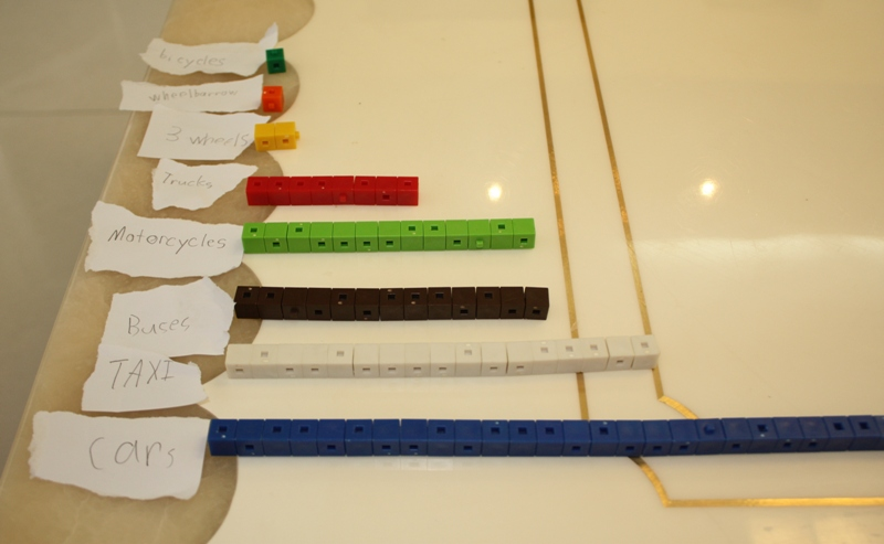 Making a barchart with math manipulatives in the classroom.